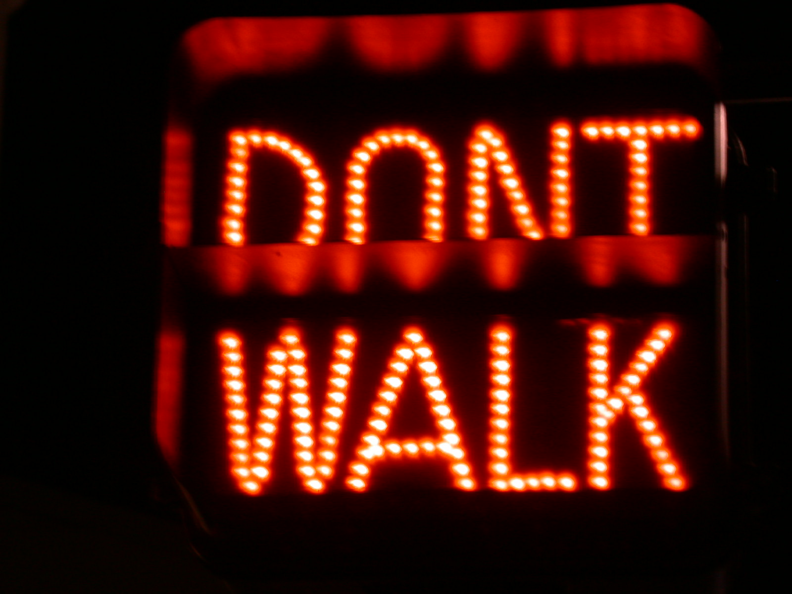 Traffic Signal "Don't Walk", New York City